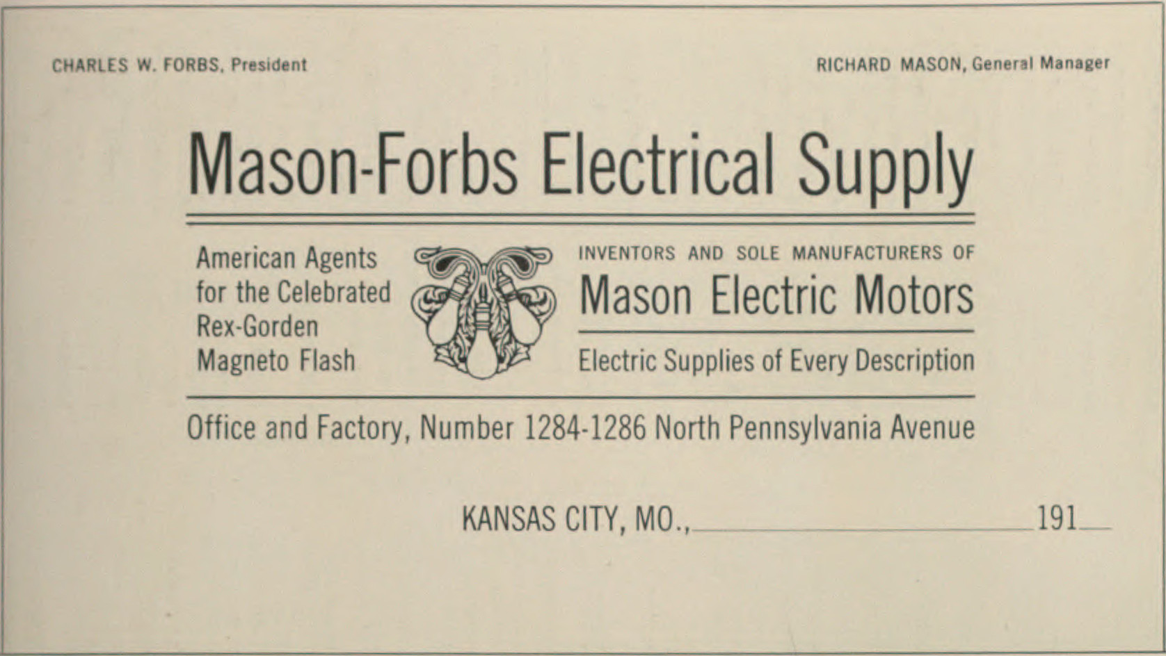 A sample image for News Gothic Condensed, made by American Type Founders in 1912. The design is a mock-letterhead for an electrical equipment company, showing the spare, clean and modern image ATF felt News Gothic could give. NOTE: File name says 1916, but this is not correct. Shown in ATF's Specimen Book of 1912